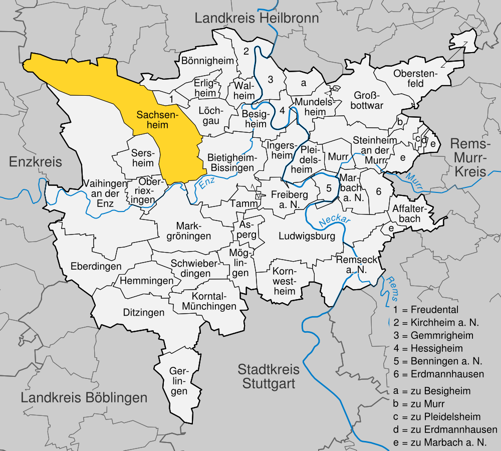 position of Sachsenheim within distict of Ludwigsburg, Baden-Württemberg, Germany